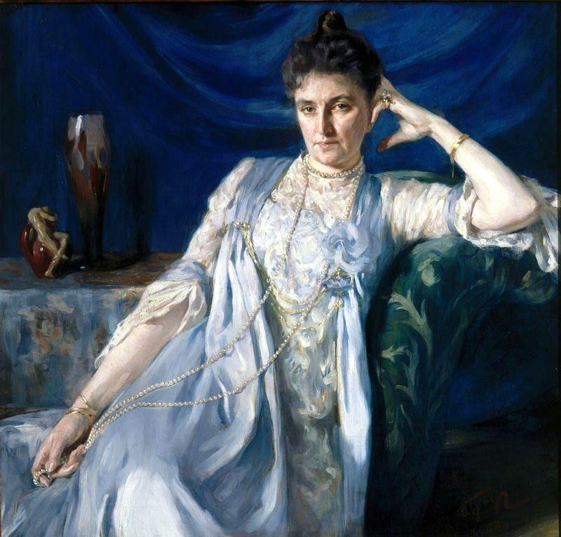 Countess E.M. Tolstaya